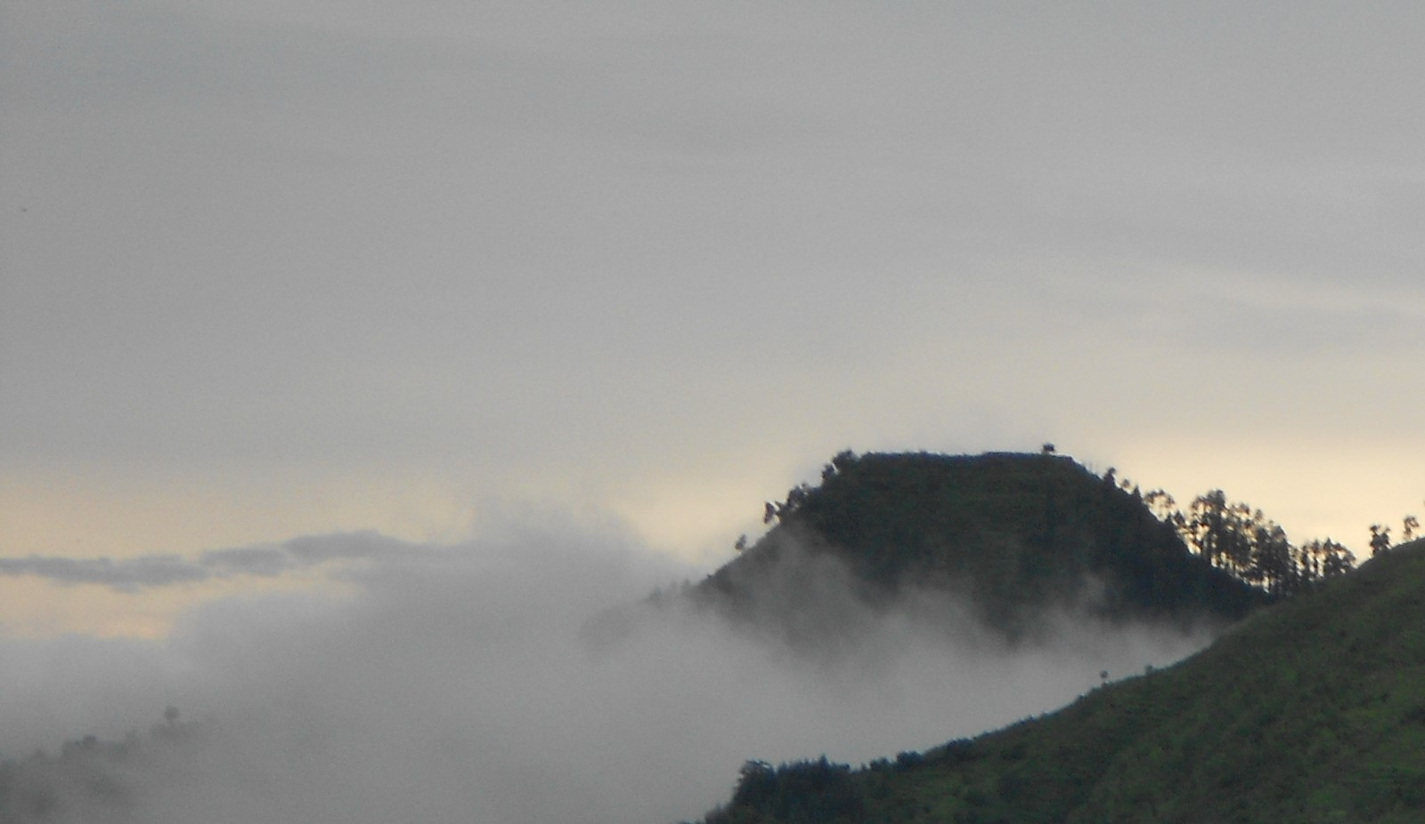 The Mist conquering the Fort of Banasur, Village Panchayat Karn Karayat, Lohaghat, District - Champawat, Uttarakhand.